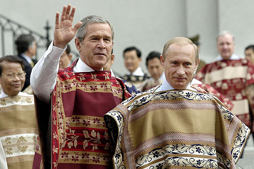 SANTIAGO, CHILE. With President US President George W. Bush.